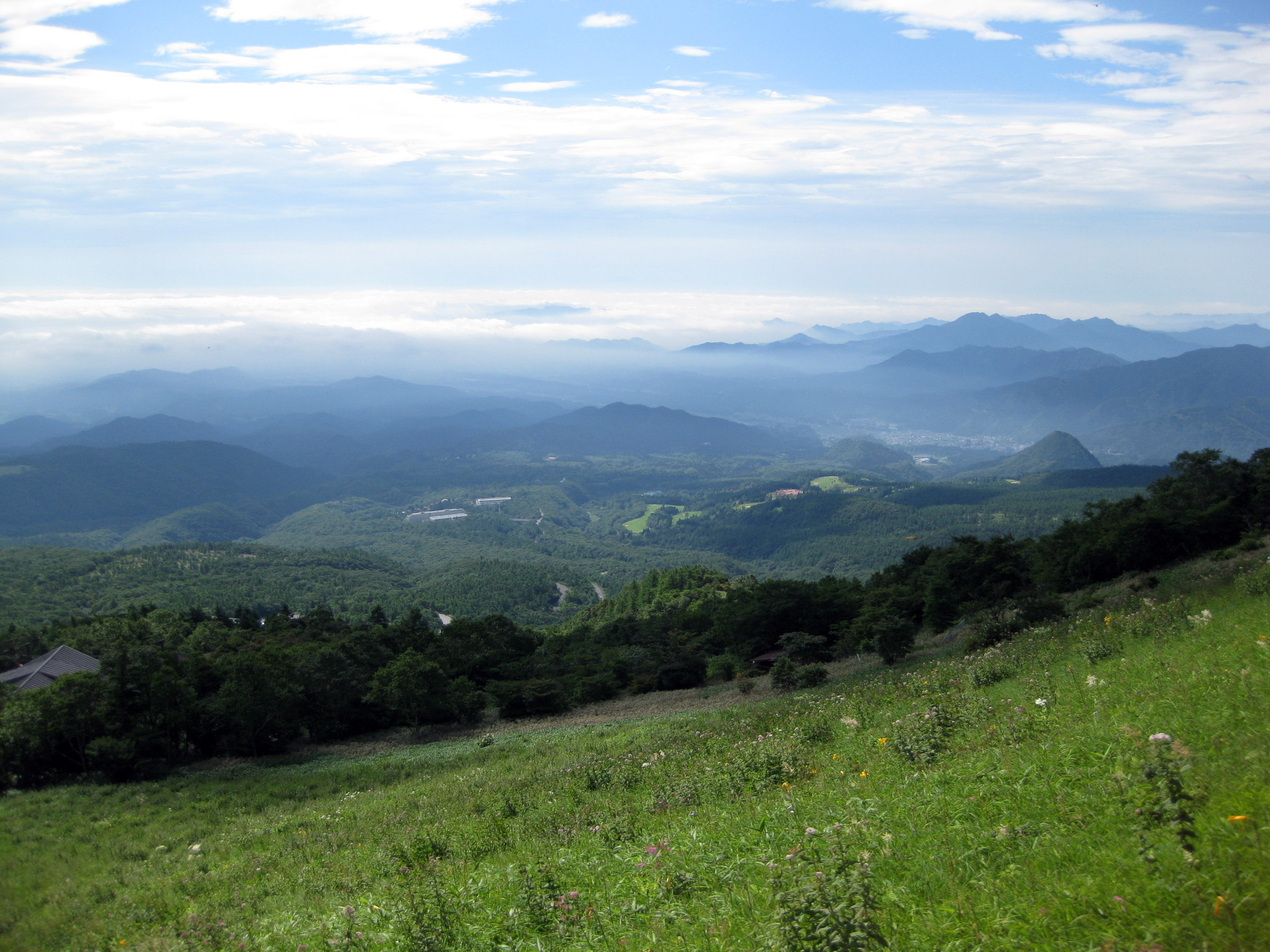 "Kisuge-Daira" (place of gregarious Hemerocallis dumortieri var. esculenta) of Kirifuri Highland in Nikko City, Tochigi Prefecture, Japan